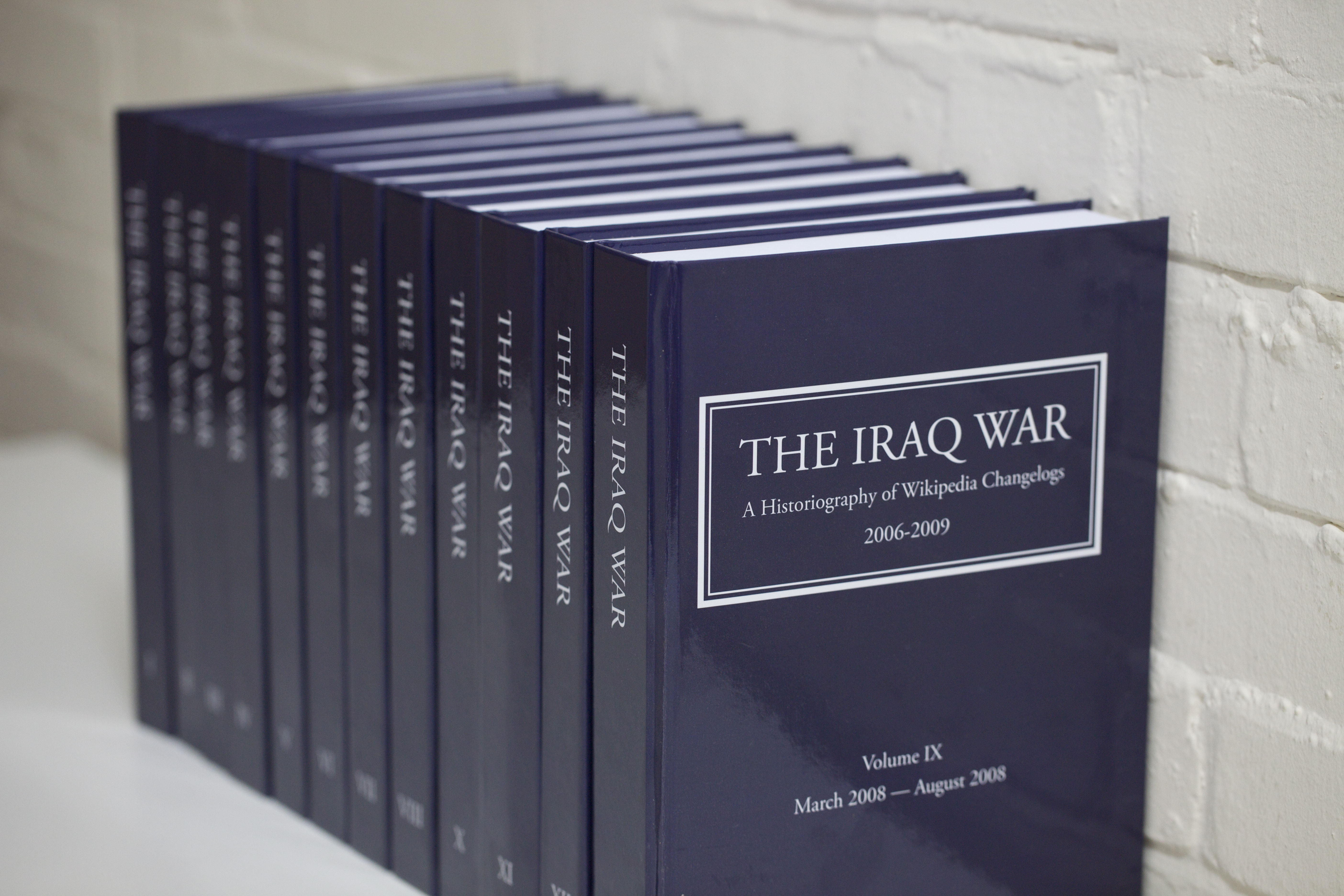 "The Iraq War: A Historiography of Wikipedia Changelogs" is a twelve-volume set of all changes to the Wikipedia article on [#%20A%20Historiography%20of%20Wikipedia%20Changelogs the Iraq War]. The twelve volumes cover a five year period from December 2004 to November 2009, a total of 12,000 changes and almost 7,000 pages. The set is part of a project exploring history and historiography facilitated by the internet, and visualising information, opinion, narrative and discussion, by James Bridle. More information can be found at . Thanks to Timo for the photos.